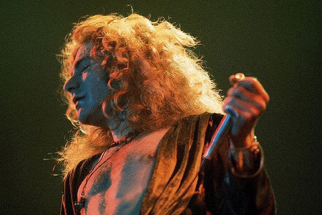 Robert Plant performing with Led Zeppelin in the US c. 1975